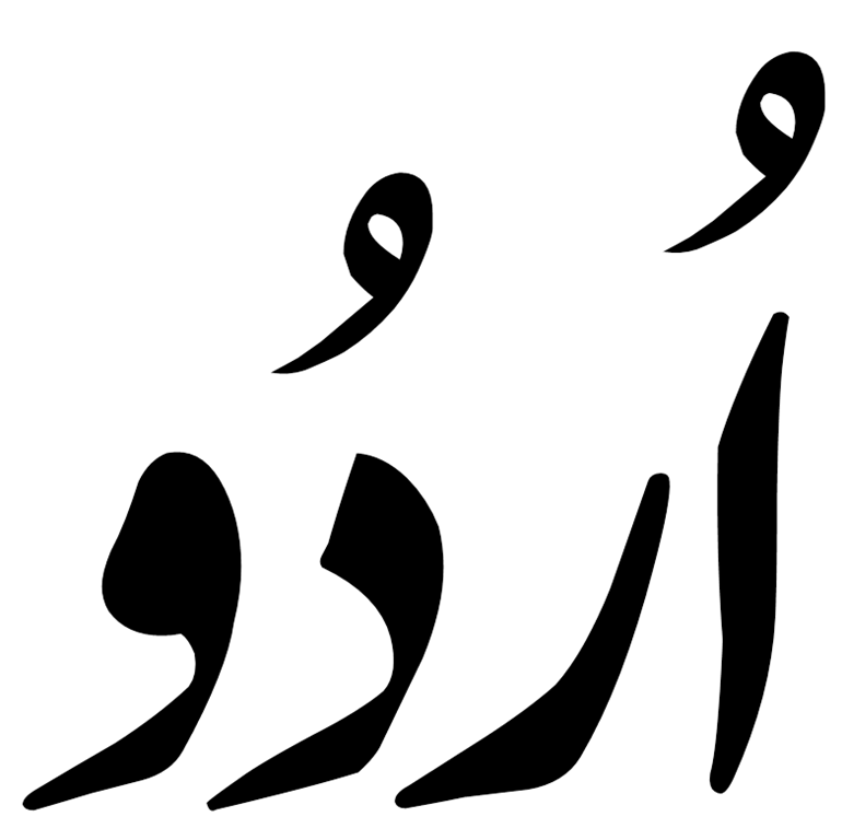 The word Urdu, written in Nastaliq style